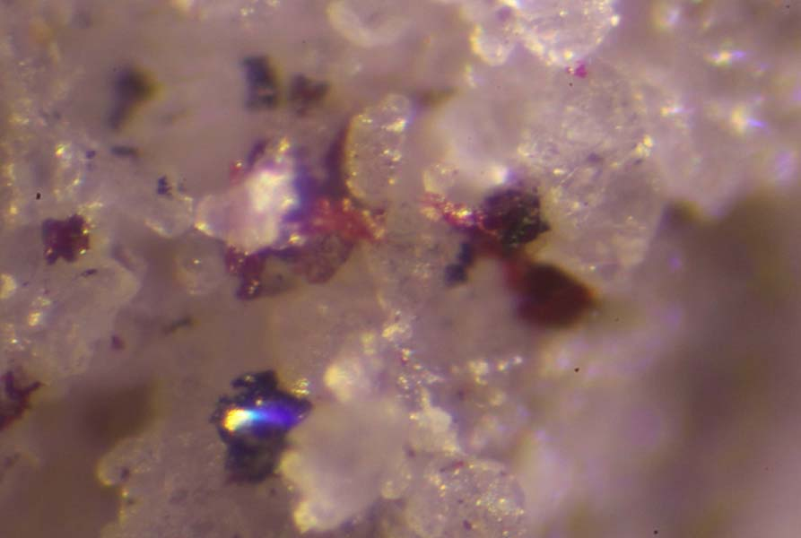 An extremely rare thallium mineral in crystallized form, as shiny dark red crystals (middle-upper part of the photo). From: Monte Arsiccio Mine, Apuan Alps, Tuscany, Italy.